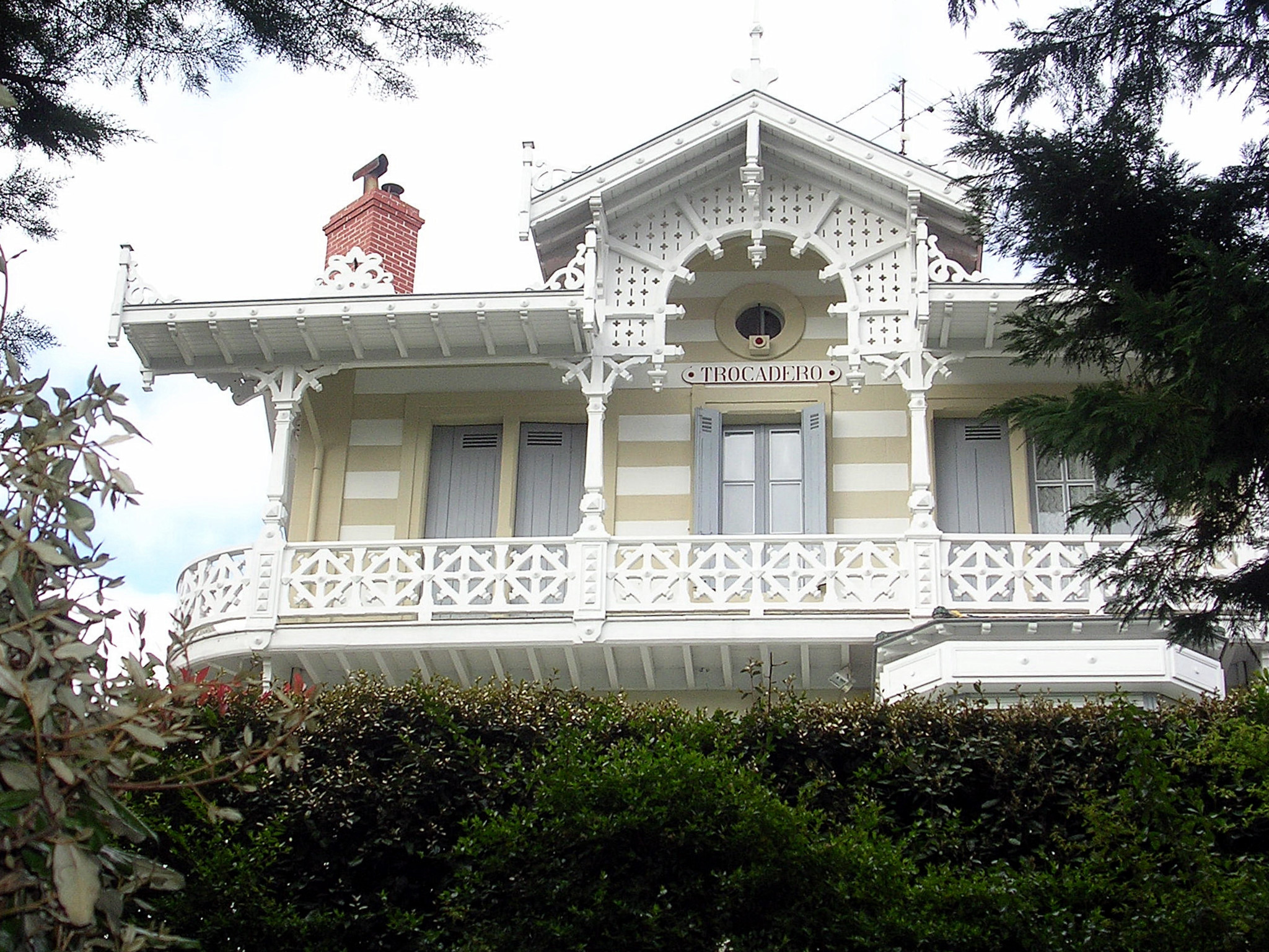 Mansion Trocadéro in Arcachon